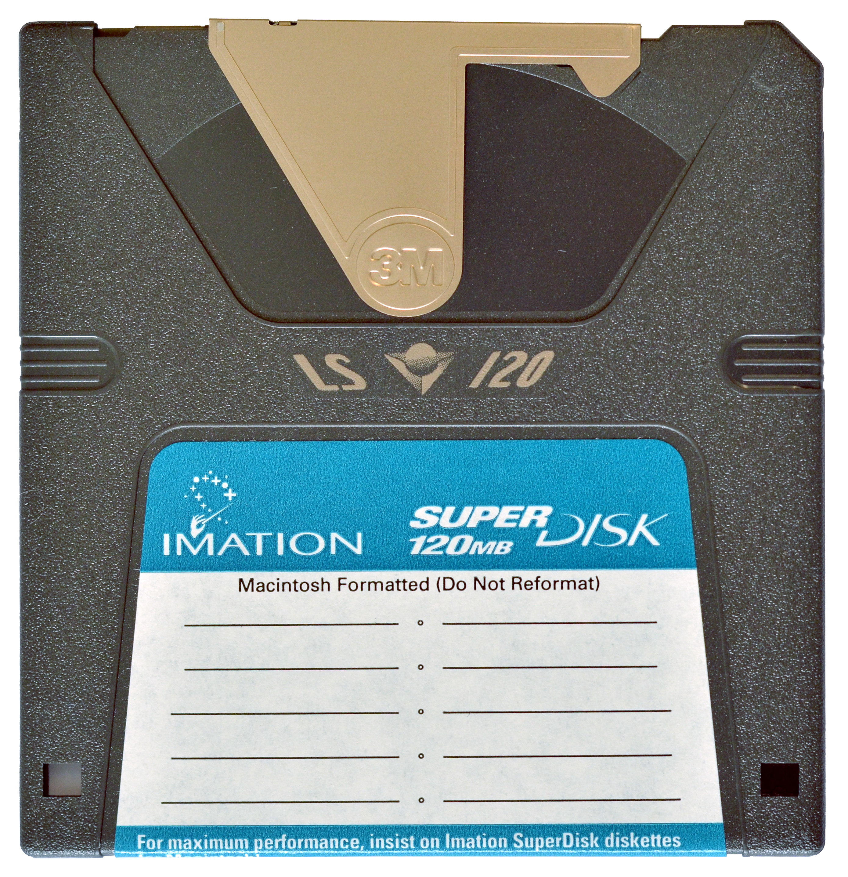 SuperDisk. in cartridge